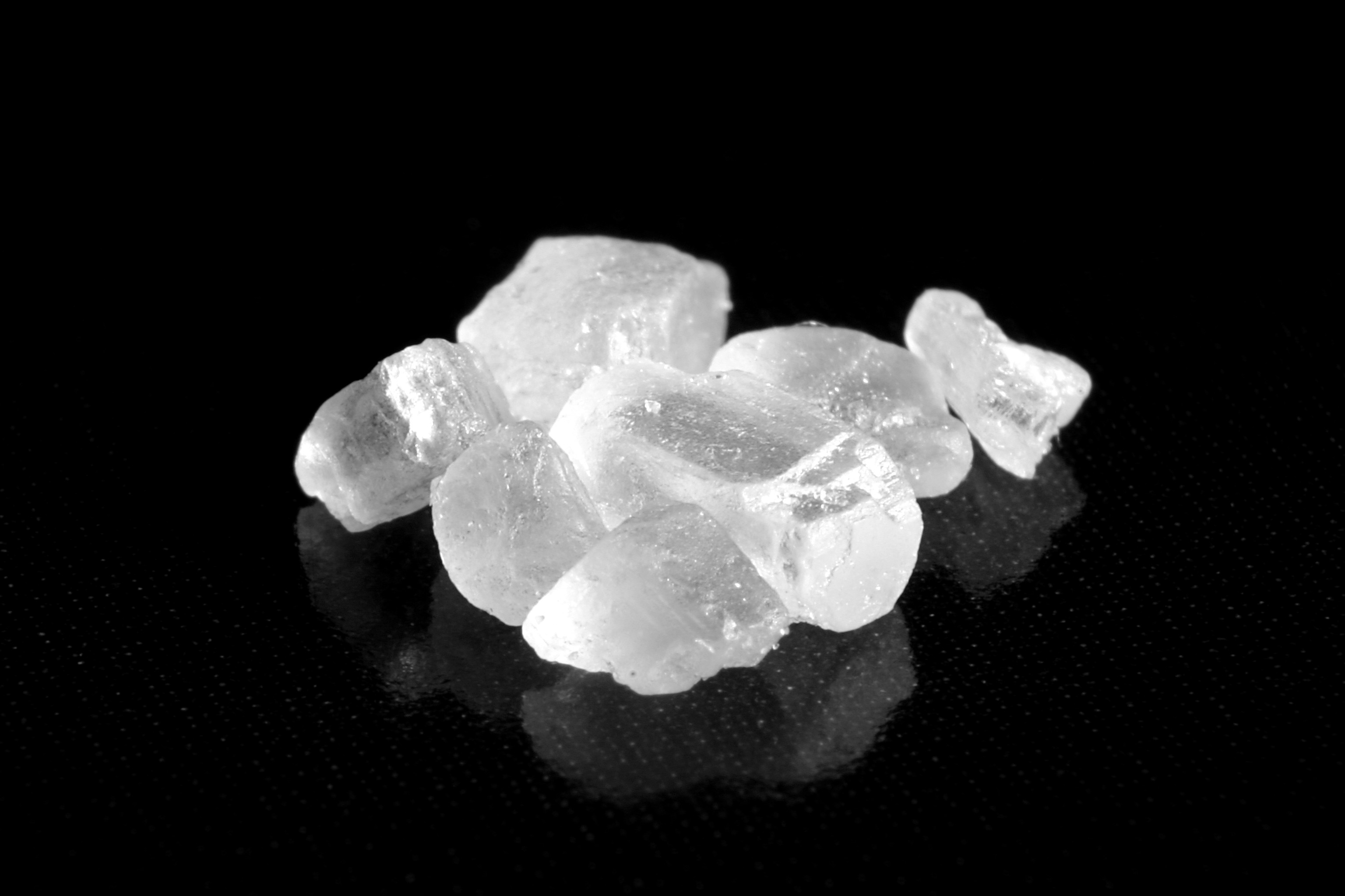 A close up of salt crystals.